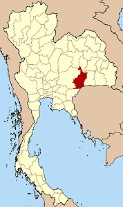 Map of Thailand hightlighting Buriram province